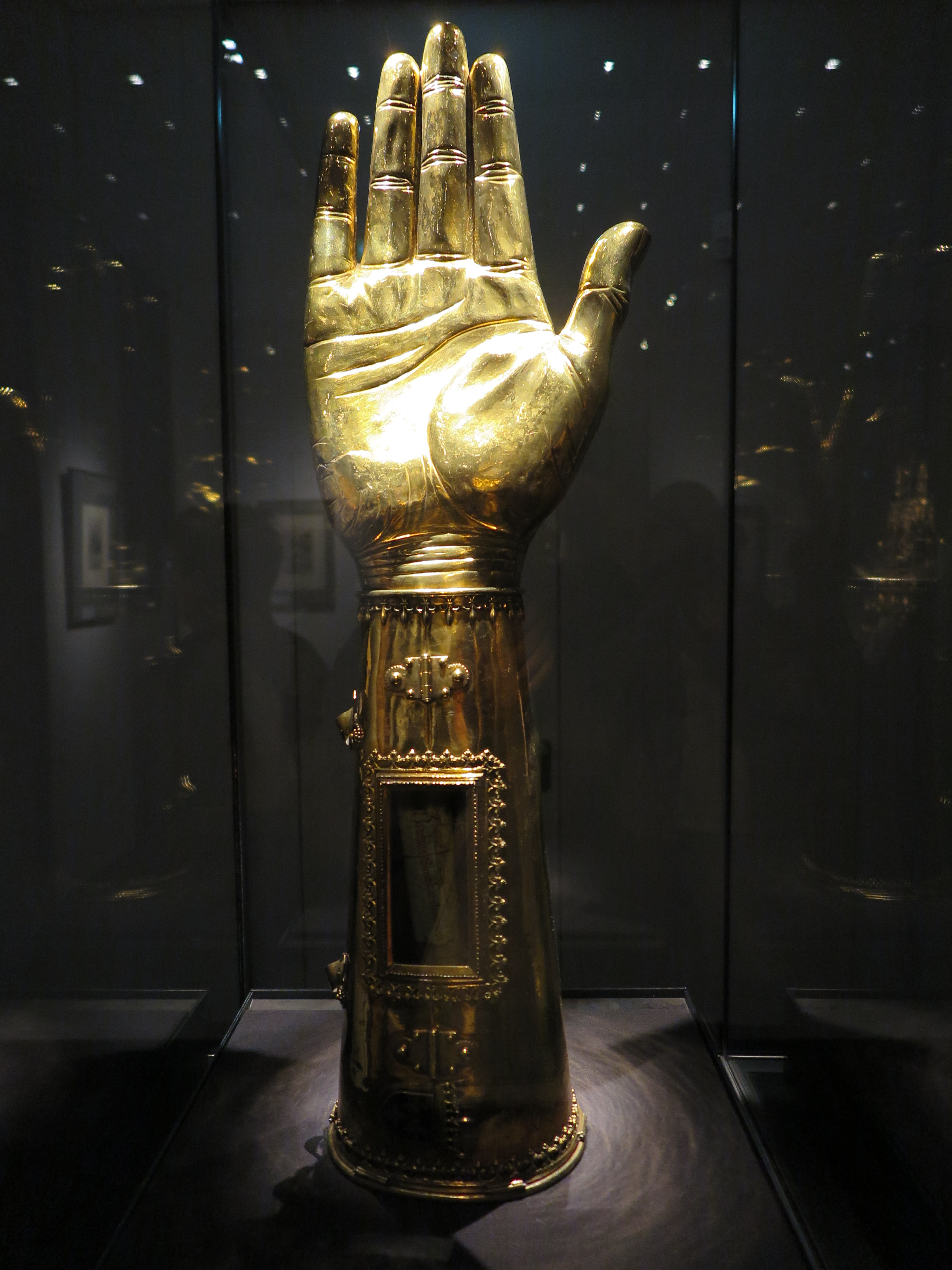 Arm reliquary with the upper left arm and the right ulna and radius of Charlemagne. These were taken by King Louis XI on the 12th of October, 1481 from the Shrine of Charlemagne (Karlsschrein) and reburied in the arm reliquary.